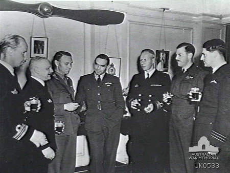 AWM caption: "SCOTLAND. 1943-09-11. A GROUP OF NORWEGIAN, ROYAL AIR FORCE (RAF) AND RAAF OFFICERS IN THE OFFICERS' MESS AT RAF STATION LEUCHARS. LEFT TO RIGHT: LIEUTENANT COMMANDER H. YOERGENSEN, NORGE COMMODORE F. LEUTYOR-HOLM, NORGE GENERAL W. HANSTEEN, NORGE GROUP CAPTAIN R. L. WALLACE, RAF COMMANDER F. LAMBRECHTS, NORGE WING COMMANDER BARROW, RAF 406356 WING COMMANDER R. HOLMES, CARNARVON, WA, NO. 455 SQUADRON RAAF Norwegian officers: "H. YOERGENSEN" is Haakon Jørgensen. "F. LEUTYOR-HOLM" is Finn Lützow-Holm, "W. HANSTEEN" is Wilhelm von Tangen Hansteen and "F. LAMBRECHTS" is Finn Lambrechts